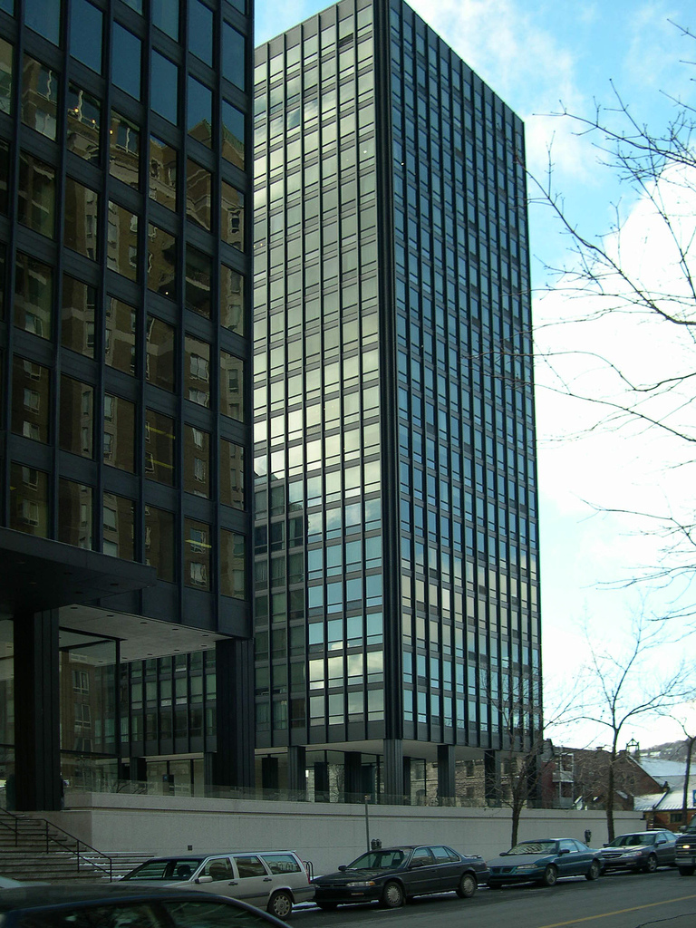 This photo shows Westmount Square a complex designed by architect Ludwig Mies van der Rohe.